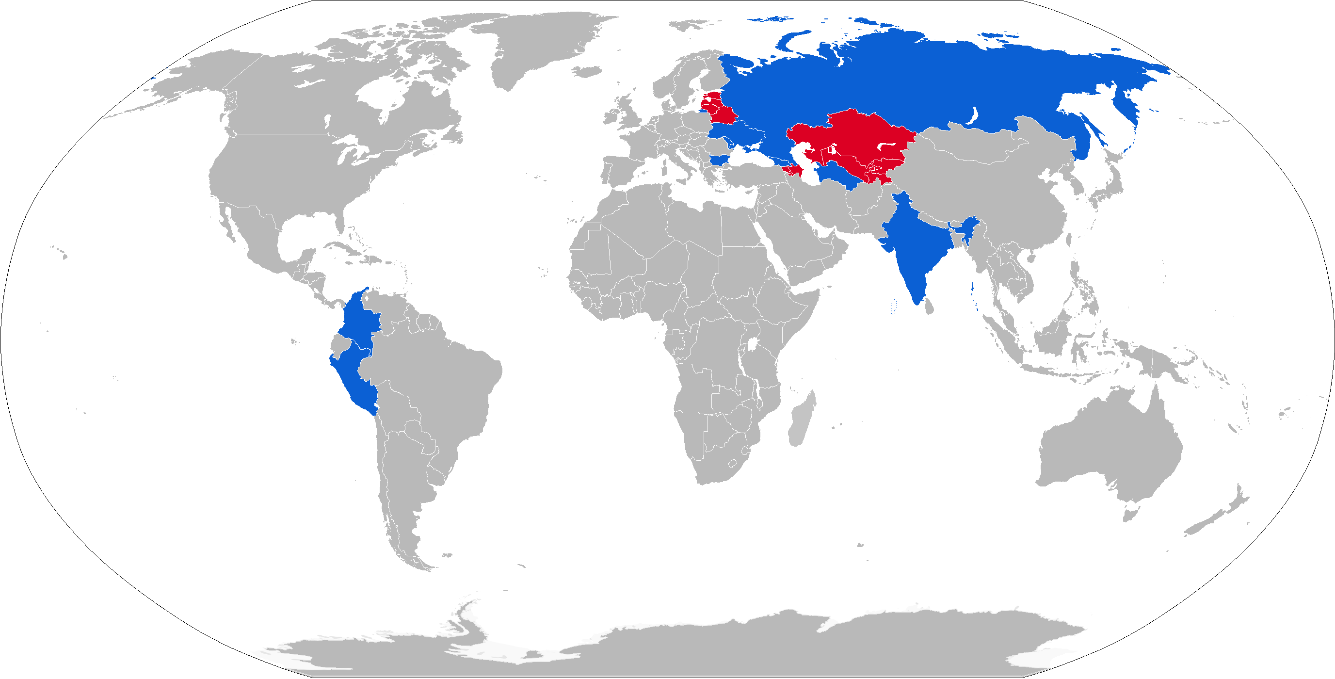 Map with RPG-22 operators in blue and former operators in red